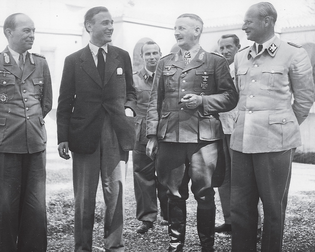 Gero von Schulze-Gaevernitz visited German headquarters in Bolzano on May 12, 1945, to express his thanks for the officers' cooperation during the surrender of the southern front. Enjoying a relaxed moment in the courtyard of SS headquarters are (left to right) Hans Röttiger, Gaevernitz, Heinrich von Vietinghoff-Scheel, and Karl Wolff; in the background: SS officers Eugen Wenner and Eugen Dollmann. NARA RG 226, Entry 110, Box 1, OSS photos. Photograph by T. S. Ryan.